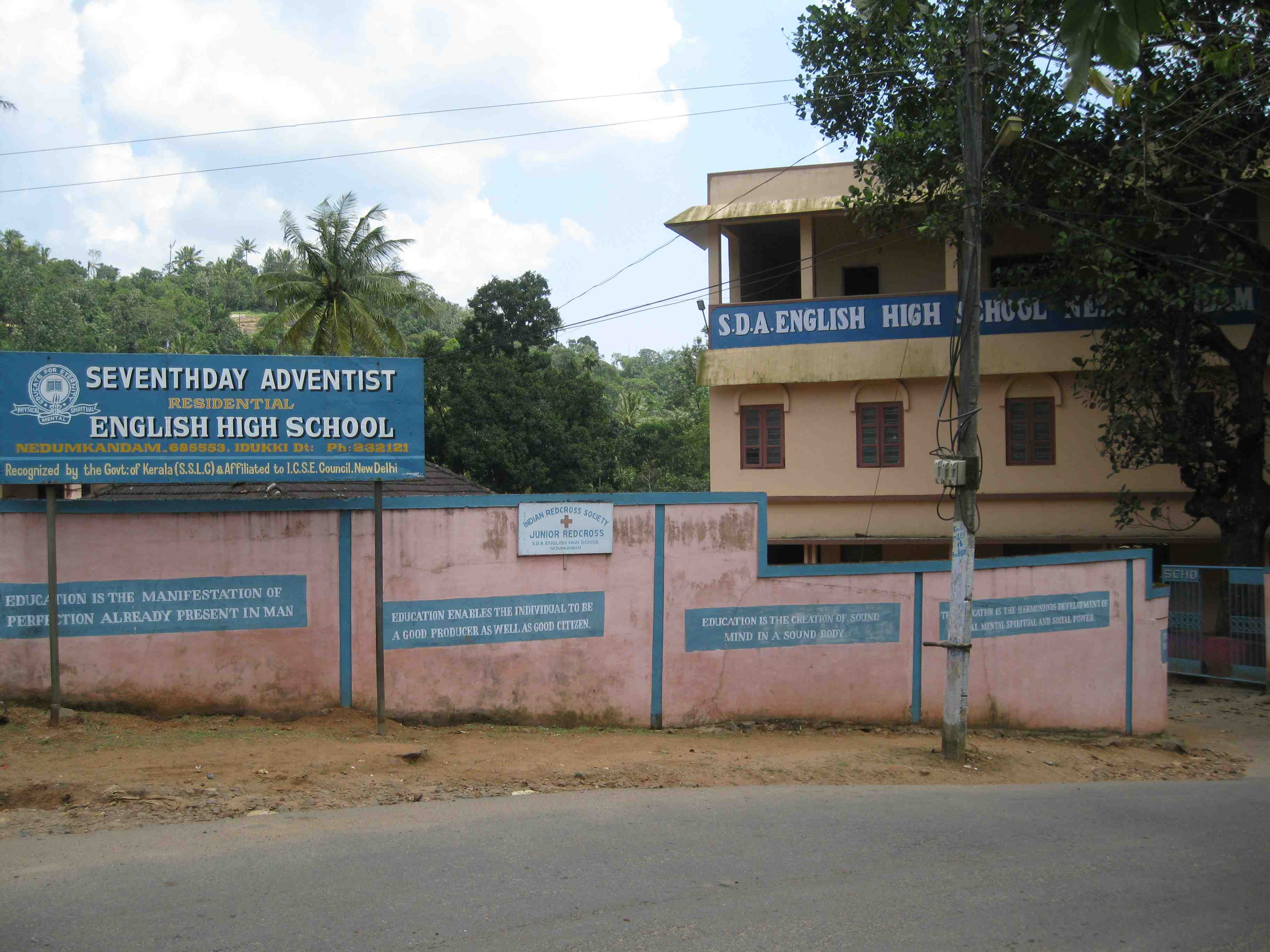 This is a snapshot of the front of the campus at SDA Residential English High School in Nedumkandam, Kerala, India.